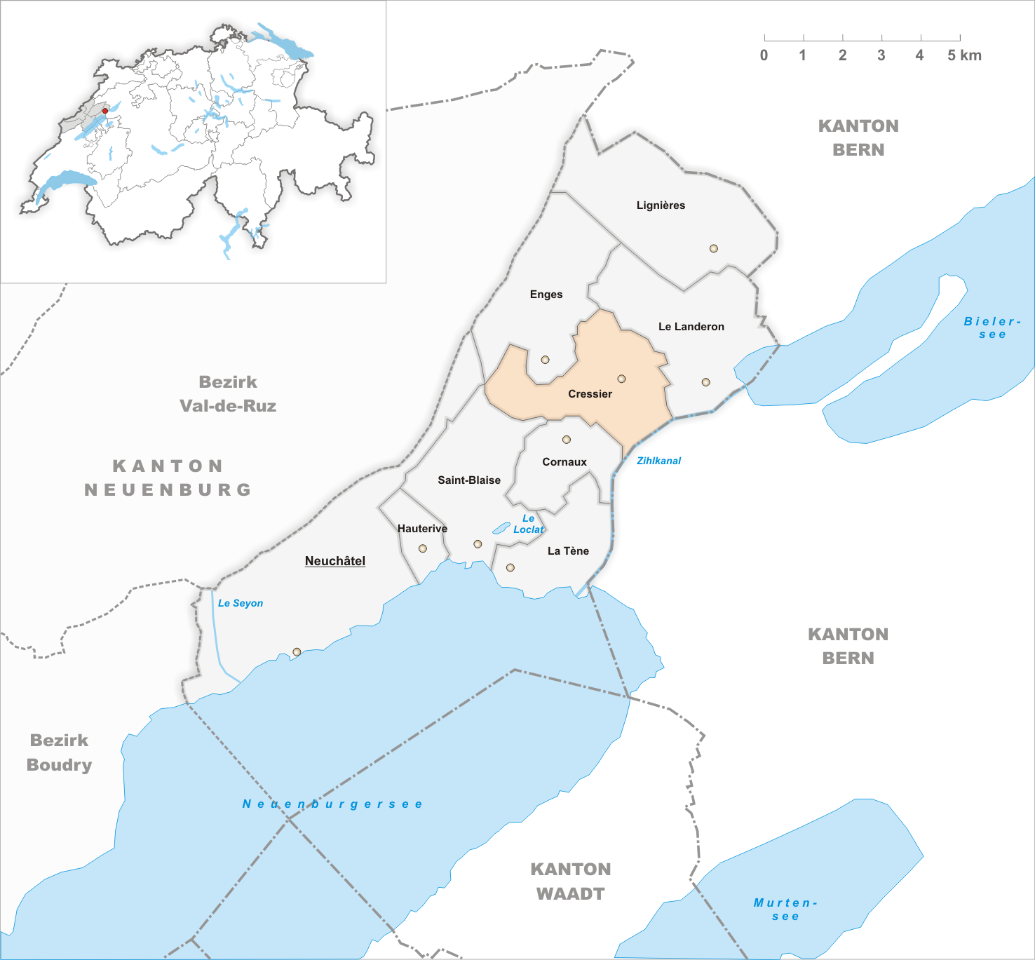 Municipality Cressier